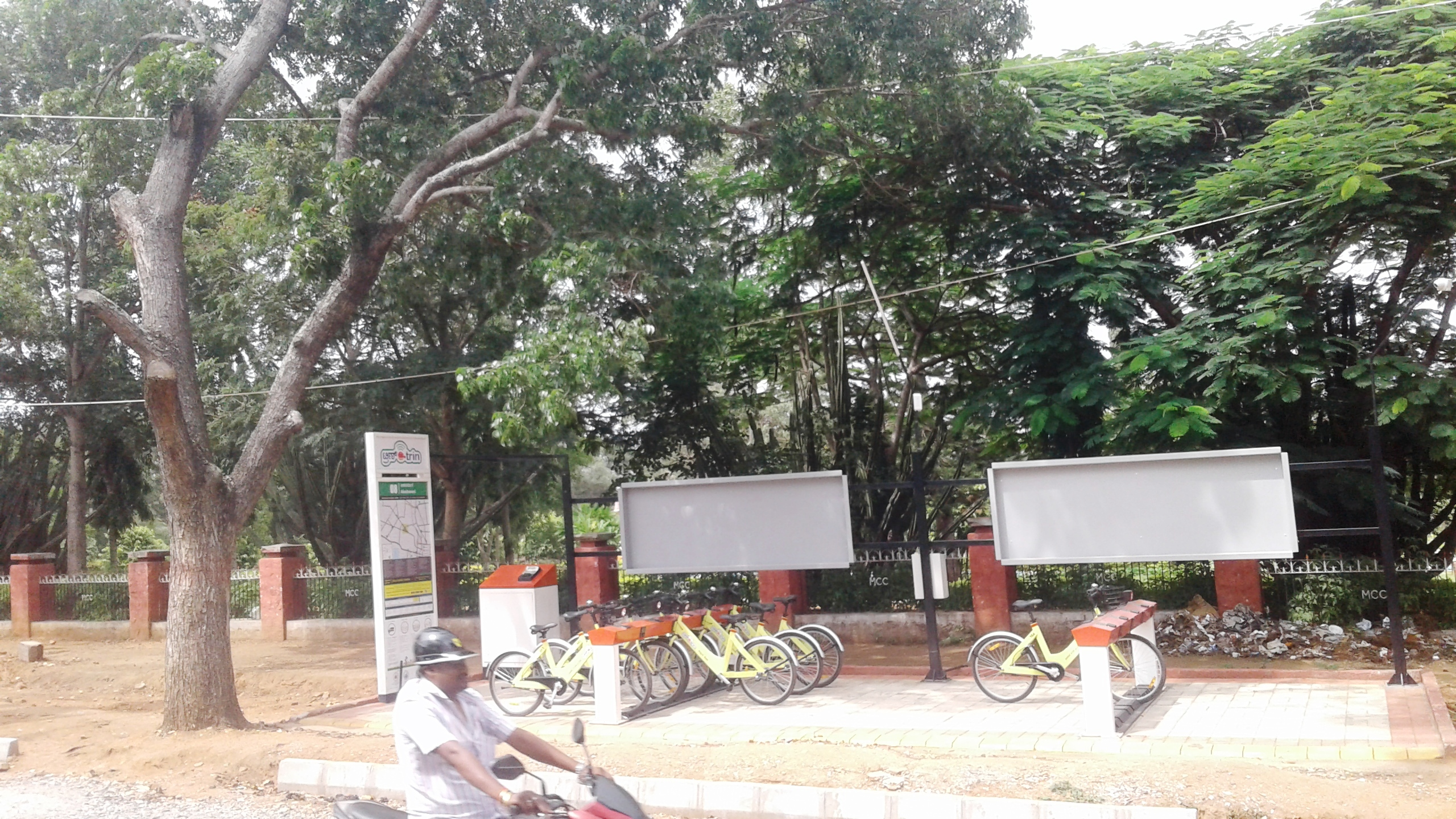 Mysore district, Karnataka state, India.